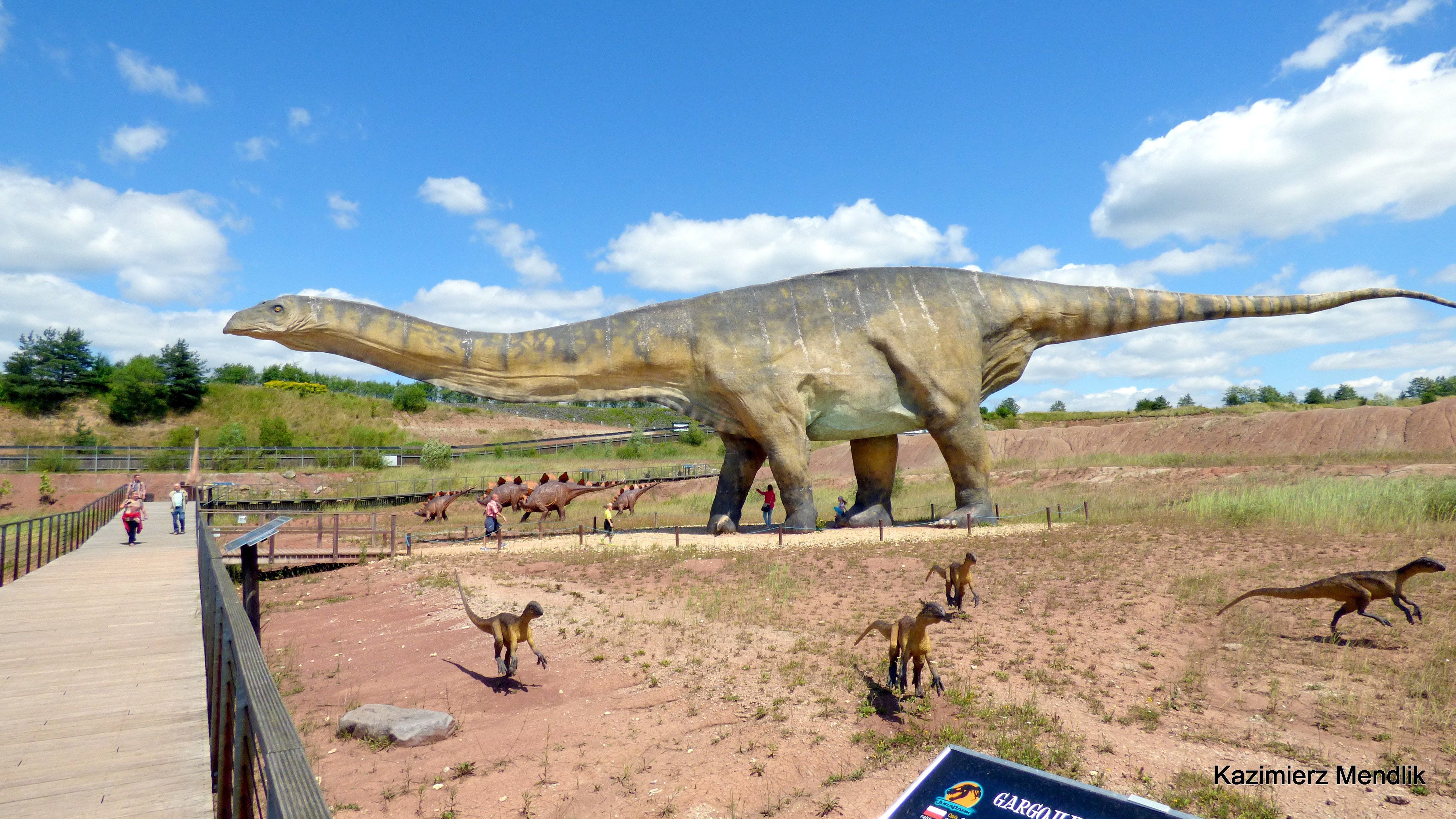 Life-size 3D reconstructions of the giant sauropod Maraapunisaurus together with the coelurid theropod Tanycolagreus (foreground) and the stegosaurid Stegosaurus (background), all from the Late Jurassic, on display at the Jura Park Krasiejów, Upper Silesia (Powiat Opolski), Poland.